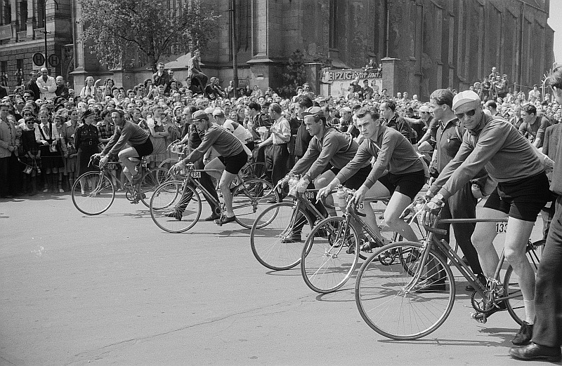 Original image description from the Deutsche Fotothek Bild 136 Vlastimil Ruzicka, 134 Alois Nachtigal, 138 Zdenek Klich, 135 Josef Krivka, 133 Jan Vesely